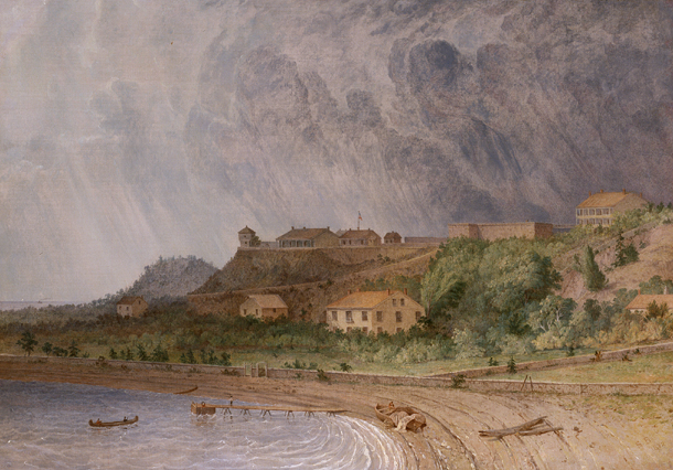 "Fort Mackinac, Michigan" by Seth Eastman, Oil on canvas – Sight measurement: Height 24.75 inches (62.865 cm), Width 35.5 inches (90.17 cm) – Signature (lower right corner): S. E. / 1872 – Cat. no. 33.00014.000